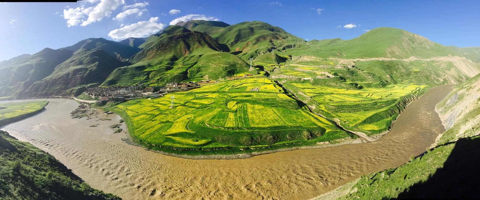 Biru/Diru county, Tibet Autonomous Region